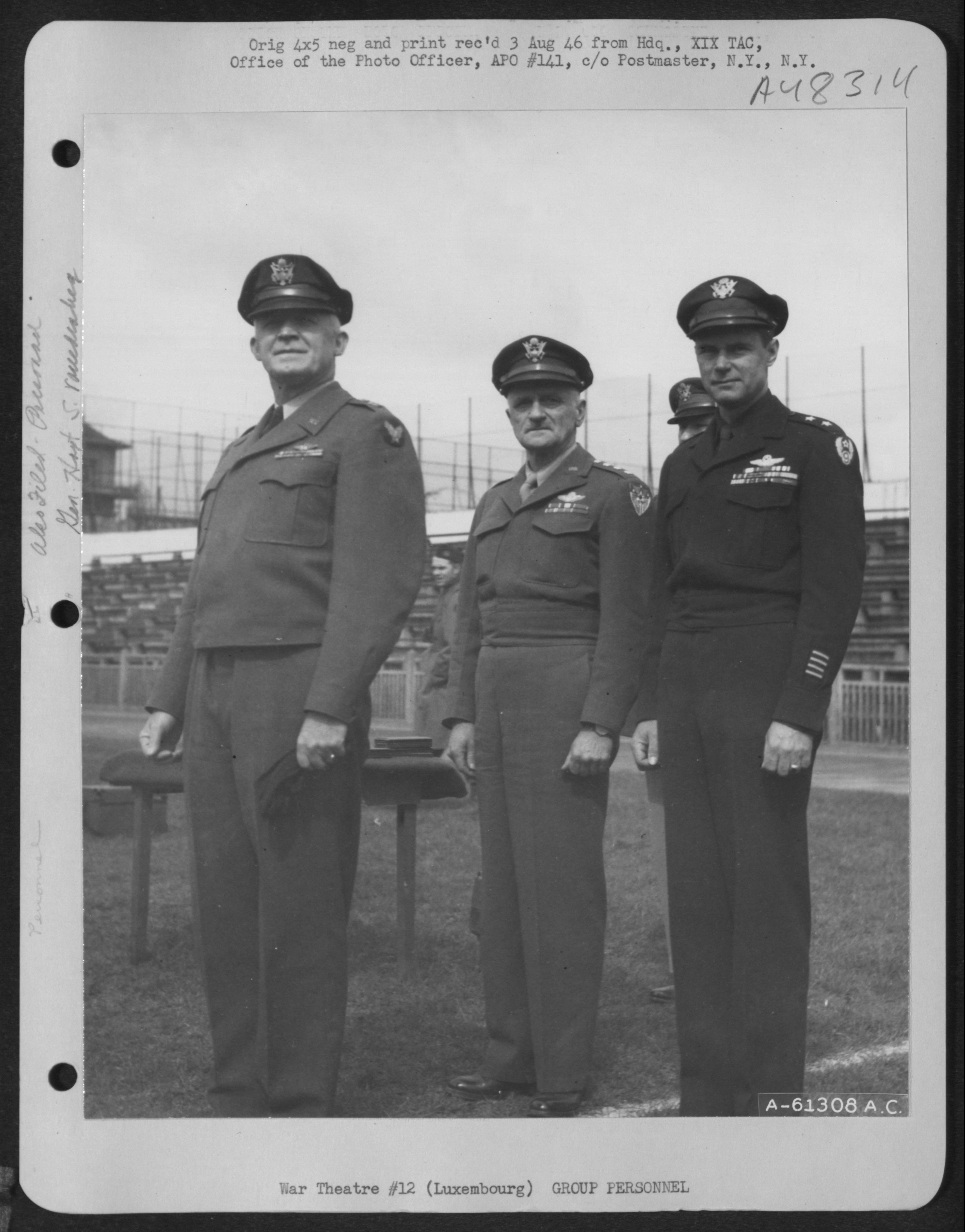 General Arnold, Commanding General of the Army Air Forces, with General Spaatz, Commanding General of USSTAF, and Lieutenant General Vandenberg, Commanding General of the Ninth Air Force, at decoration ceremonies held in Luxembourg City on 7 April 1945.